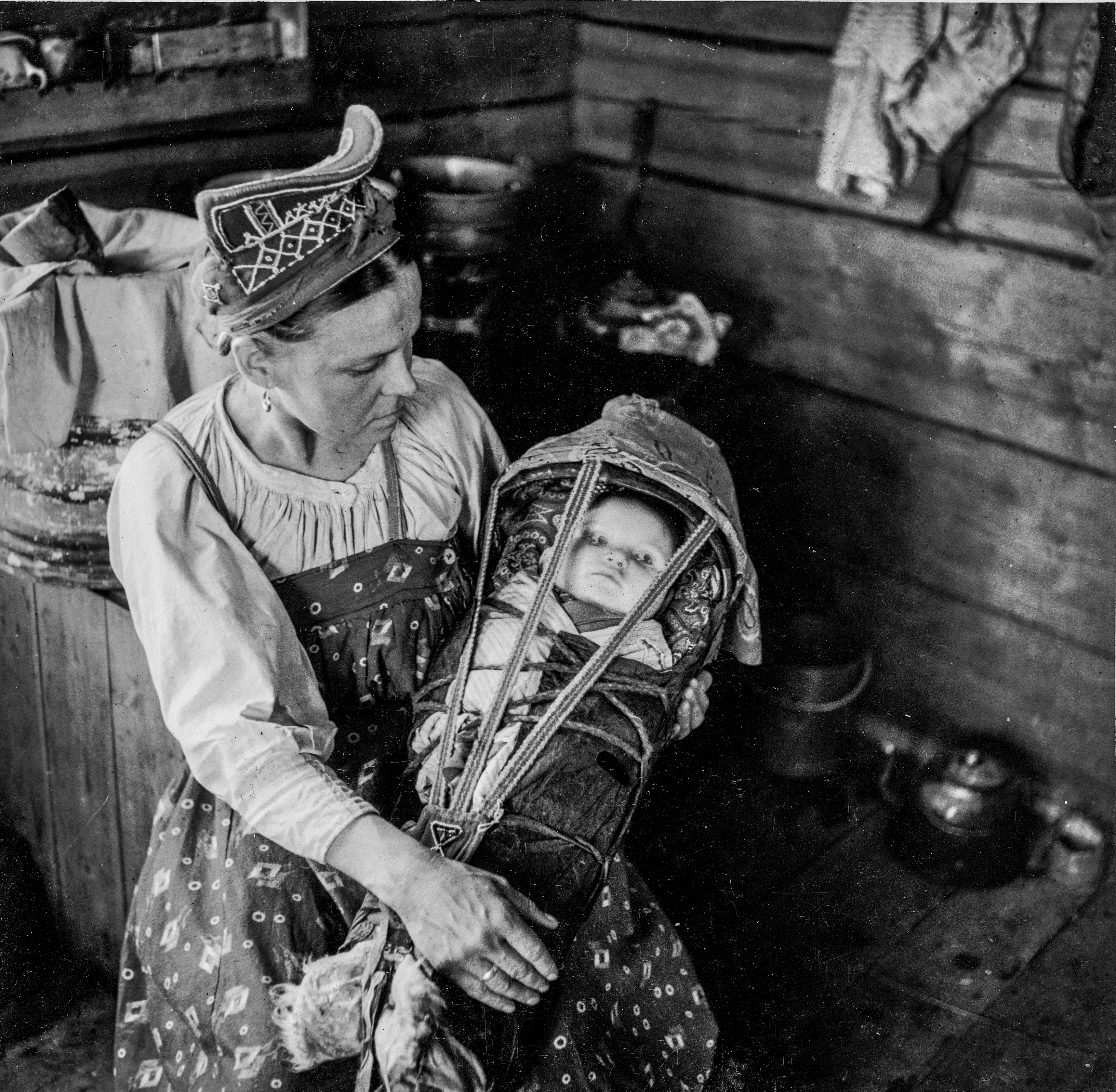 Winter village. Skolt Sami woman and her child in a cradleboard. The mother is wearing a bead-embroidered šaamšiǩ.